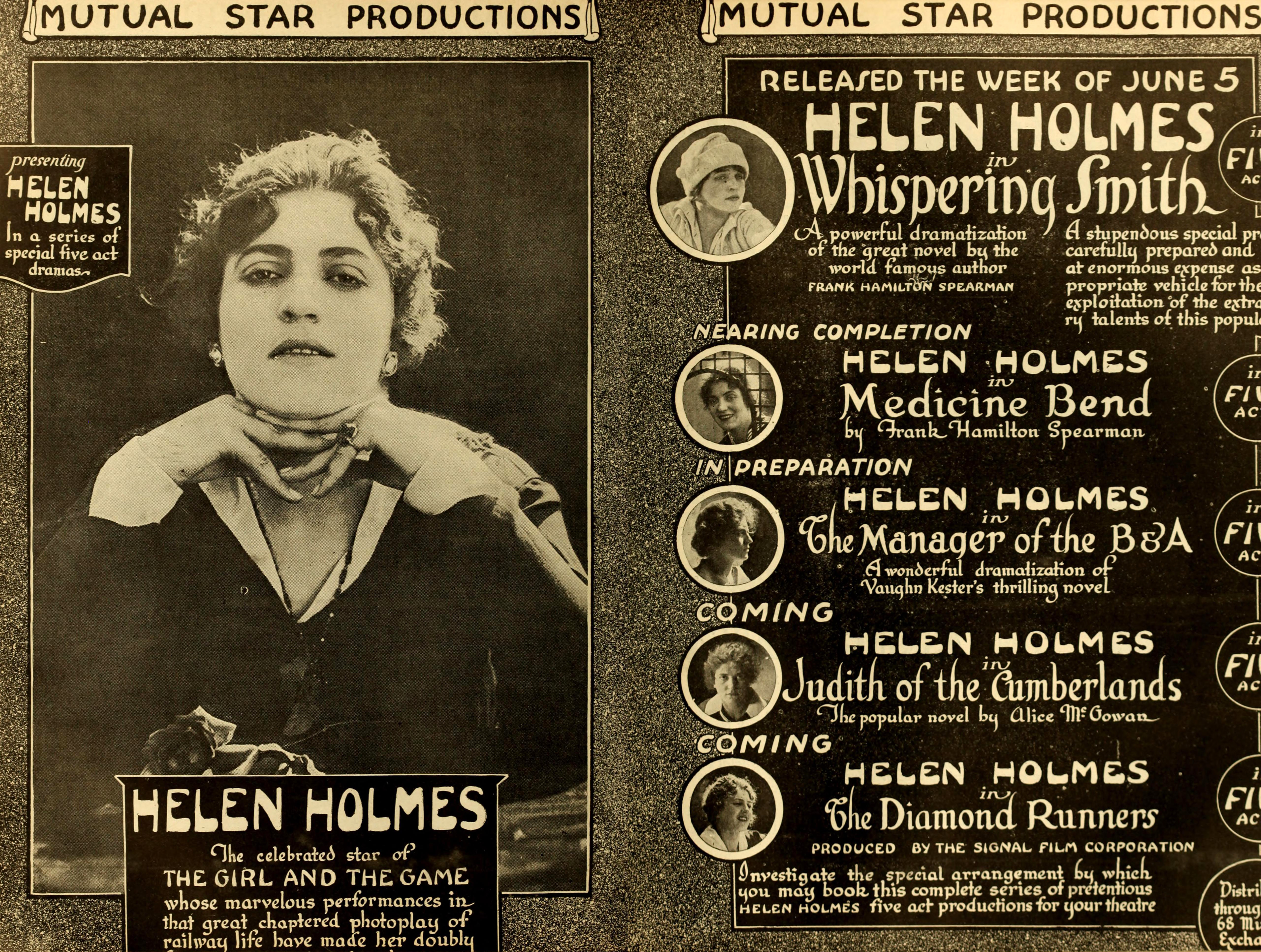 Advertisement in The Moving Picture World